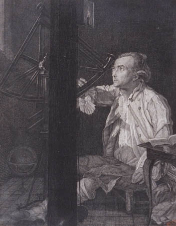 French astronomer Antoine Darquier de Pellepoix who discovered Ring Nebula (M57)